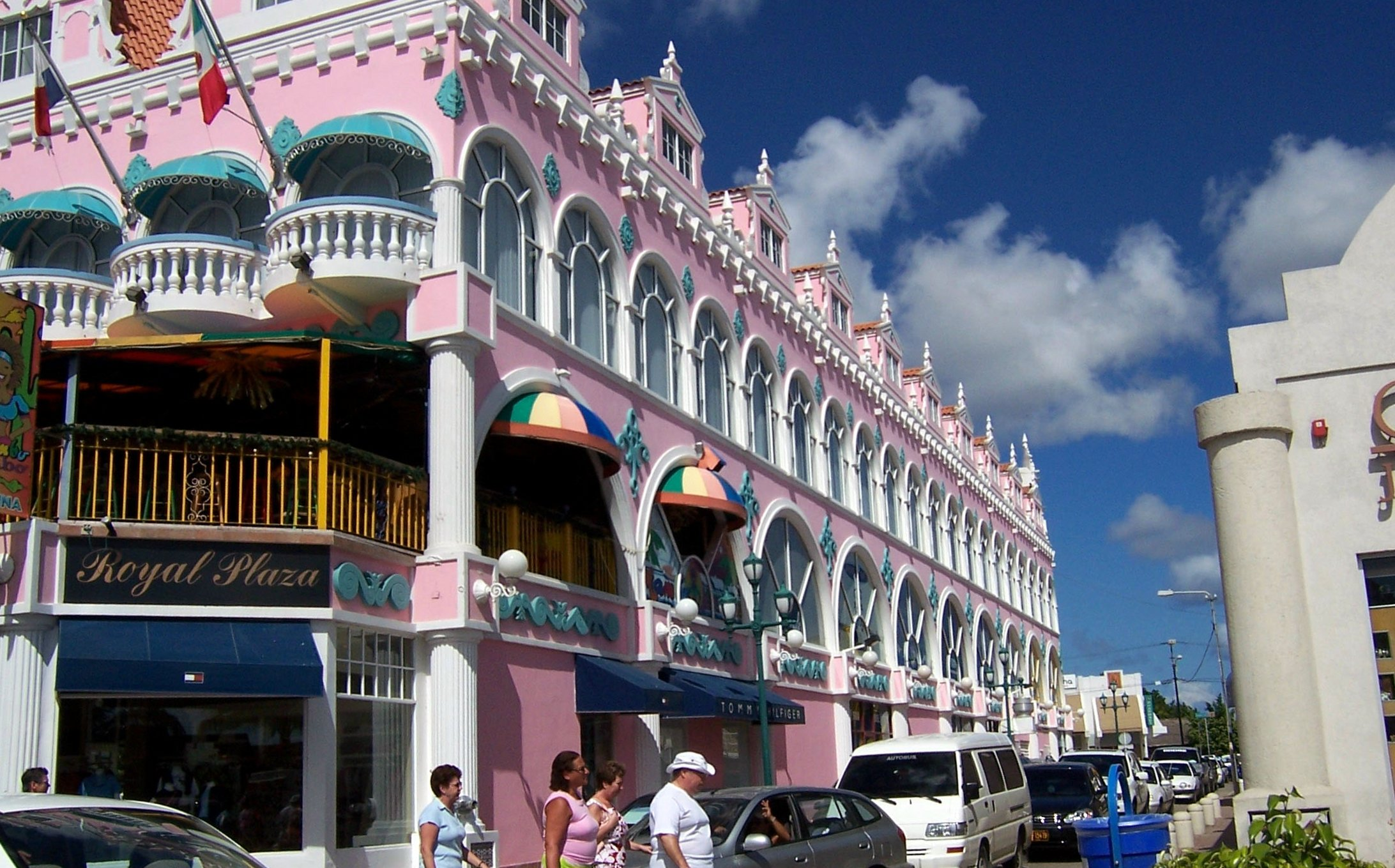 typical dutch architecture. pretty nice considering that the guidebook said that there was nothing to see in Aruba, architecture-wise, that is...oranjestad